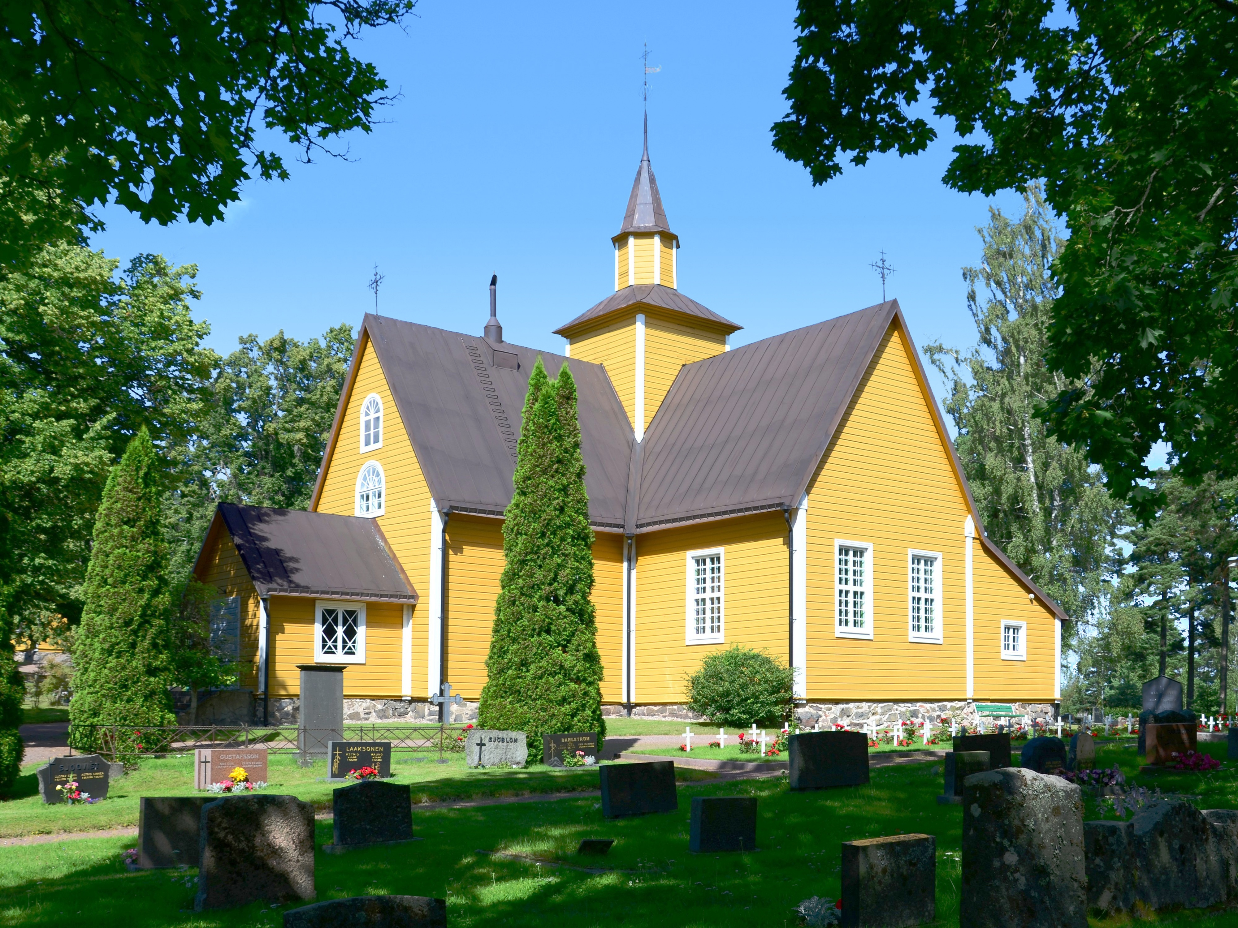 Church of Dragsfjärd in Kimito (Kemiö)